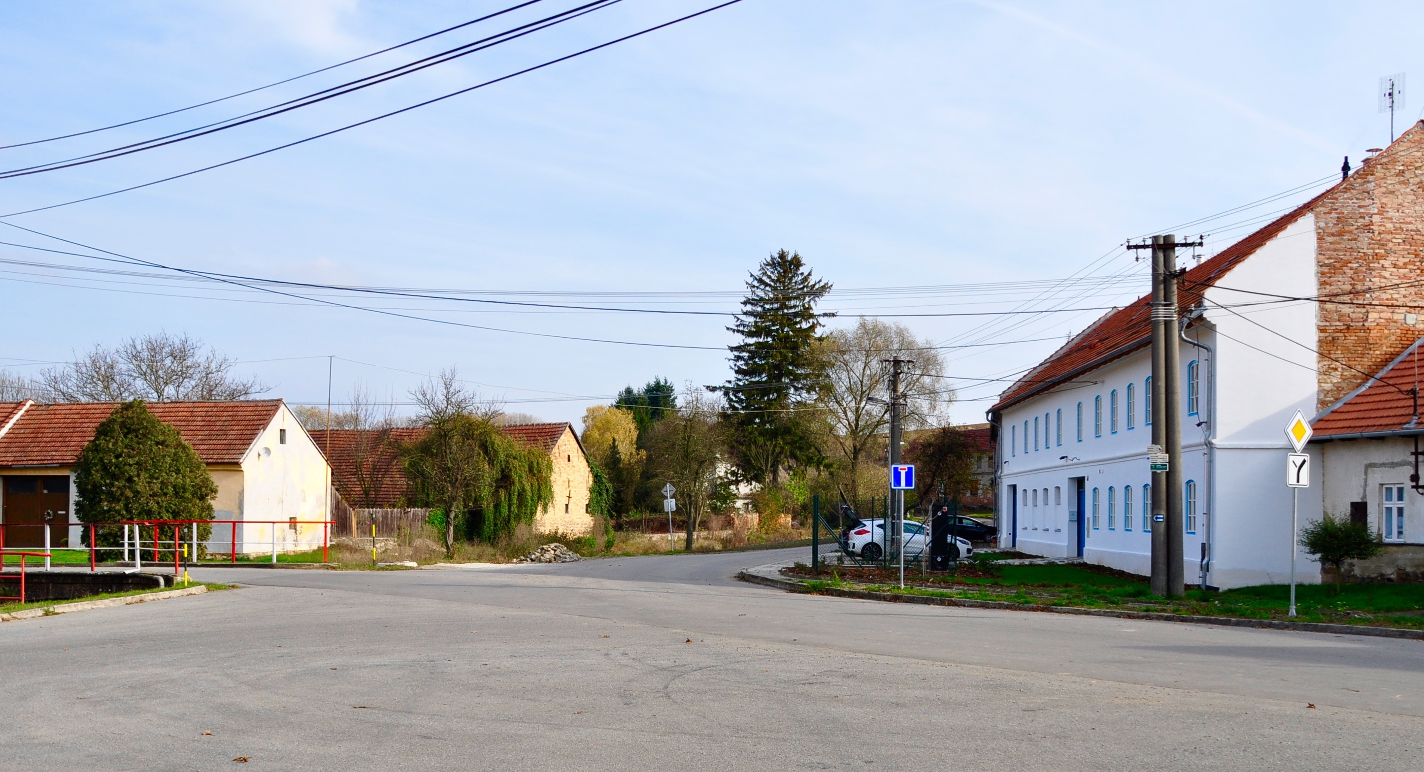 Šardičky village square redevelopment 2016